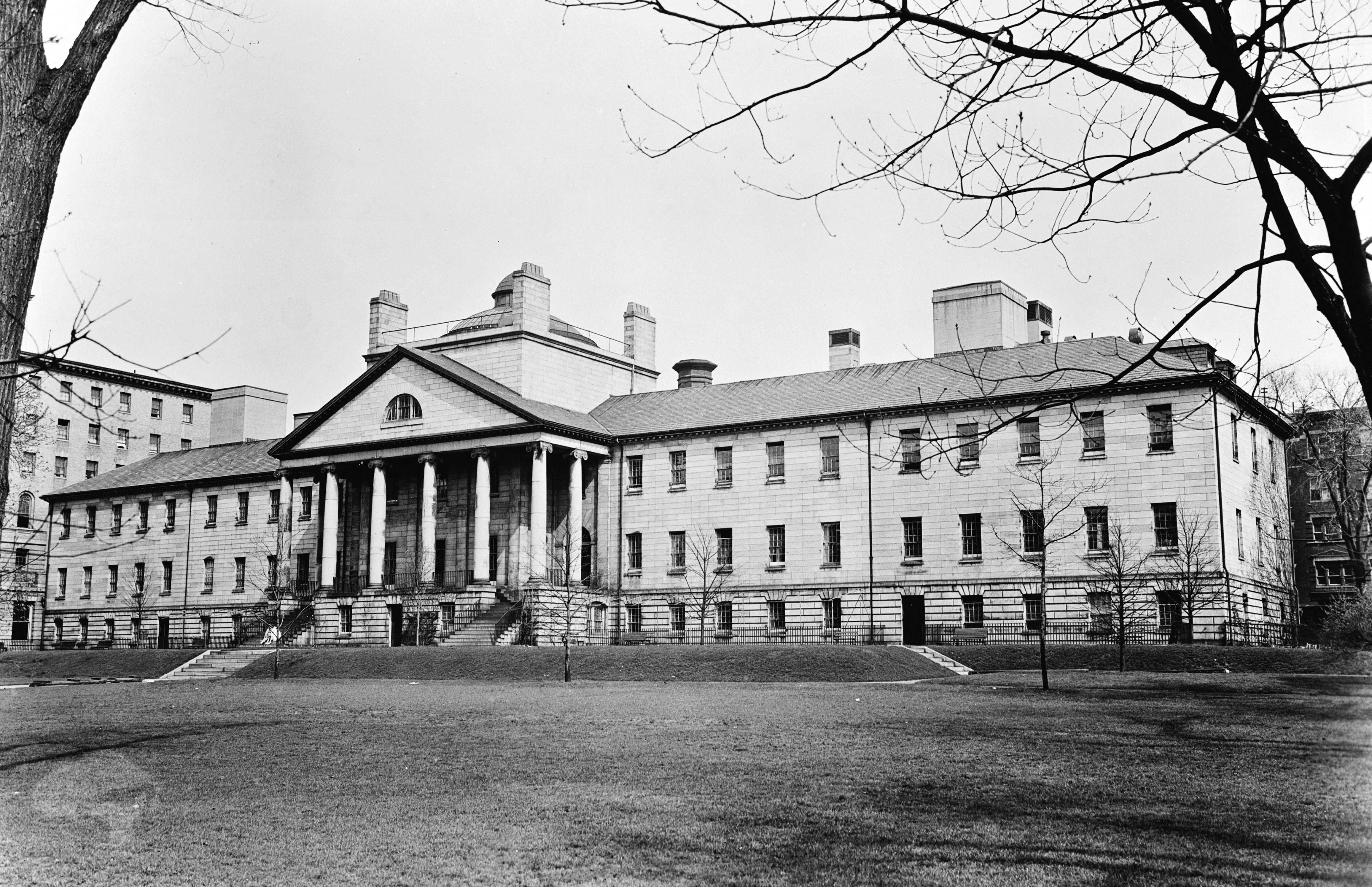 Photograph of Massachusetts General Hospital, Bulfinch Building, Fruit Street, Boston, Massachusetts, USA. General view of front facade. Historic American Buildings Survey—HABS image.